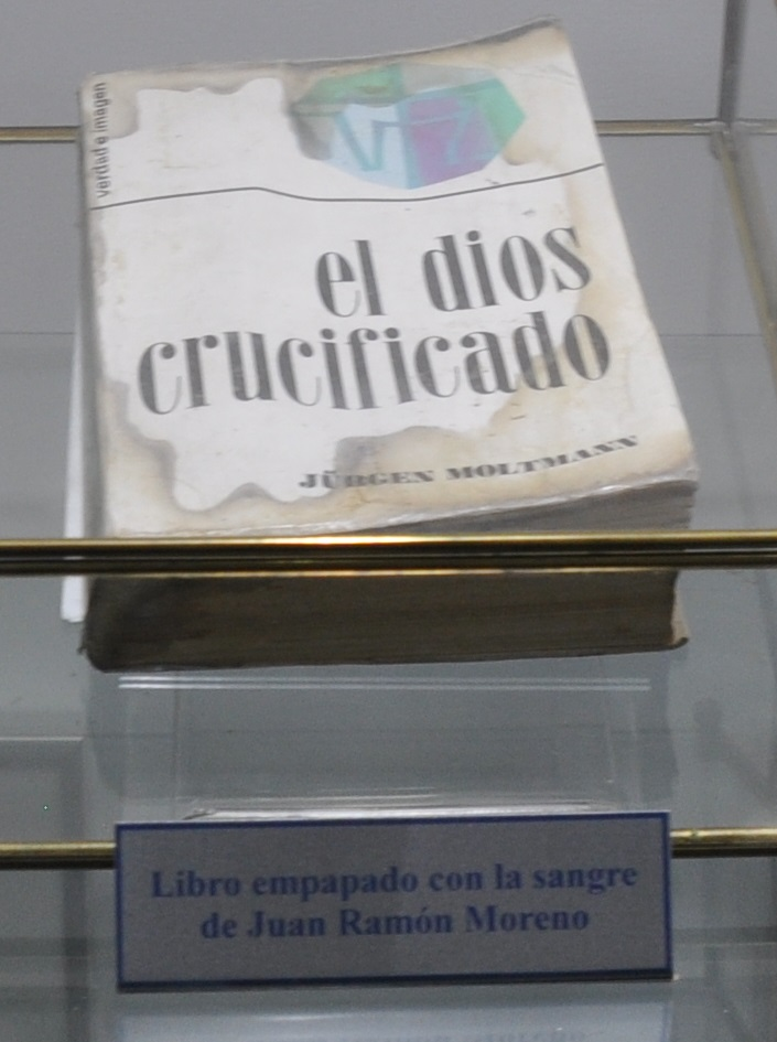 "Dios crucificado", book by Jurgen Moltmann, with father Juan Ramón Moreno's blood, when he was killed with his jesuits brothers and sisters in UCA, El Salvador, 16 nov 1989.14 11 2013